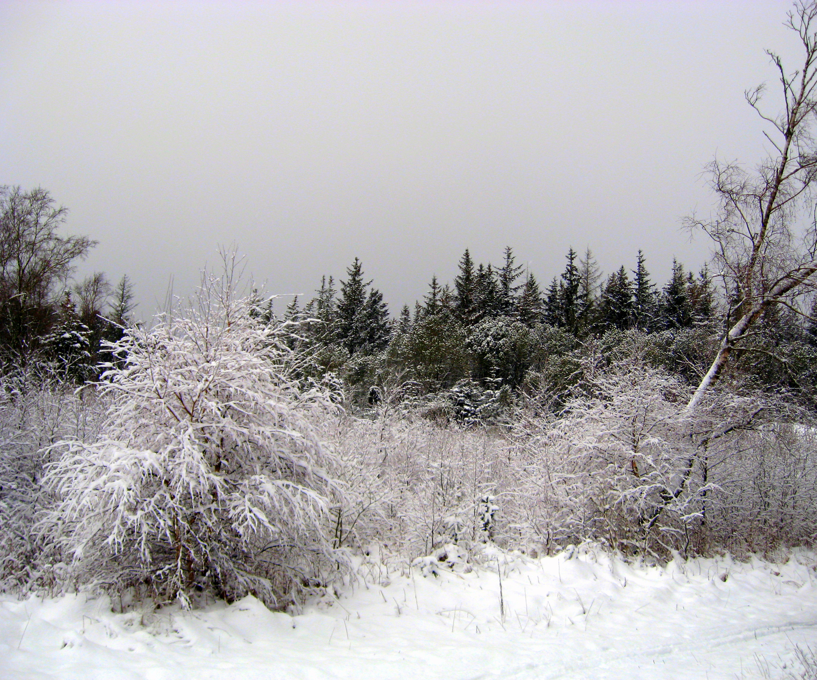 Winter in Tornby Forest (Northern Denmark)